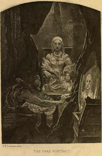 Illustration for Poe's The Oval Portrait in "Tales and poems - vol.2" (Philadelphia: G. Barrie, 18??) on the page to face p. 87